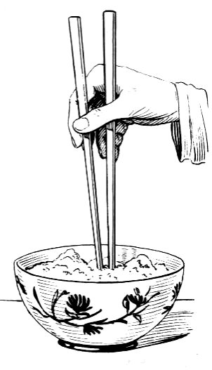 line art drawing of chopsticks.